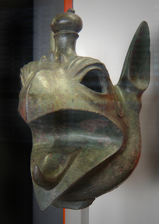 Head of griffin in bronze. Archaeological Museum of Delphi, Greece.